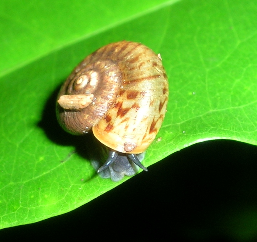 Snail from Nandi Hills, India Pterocyclus sp. or Theobaldius sp . belonging to family Cyclophoridae. (suggested by N A Aravind Madhyastha)